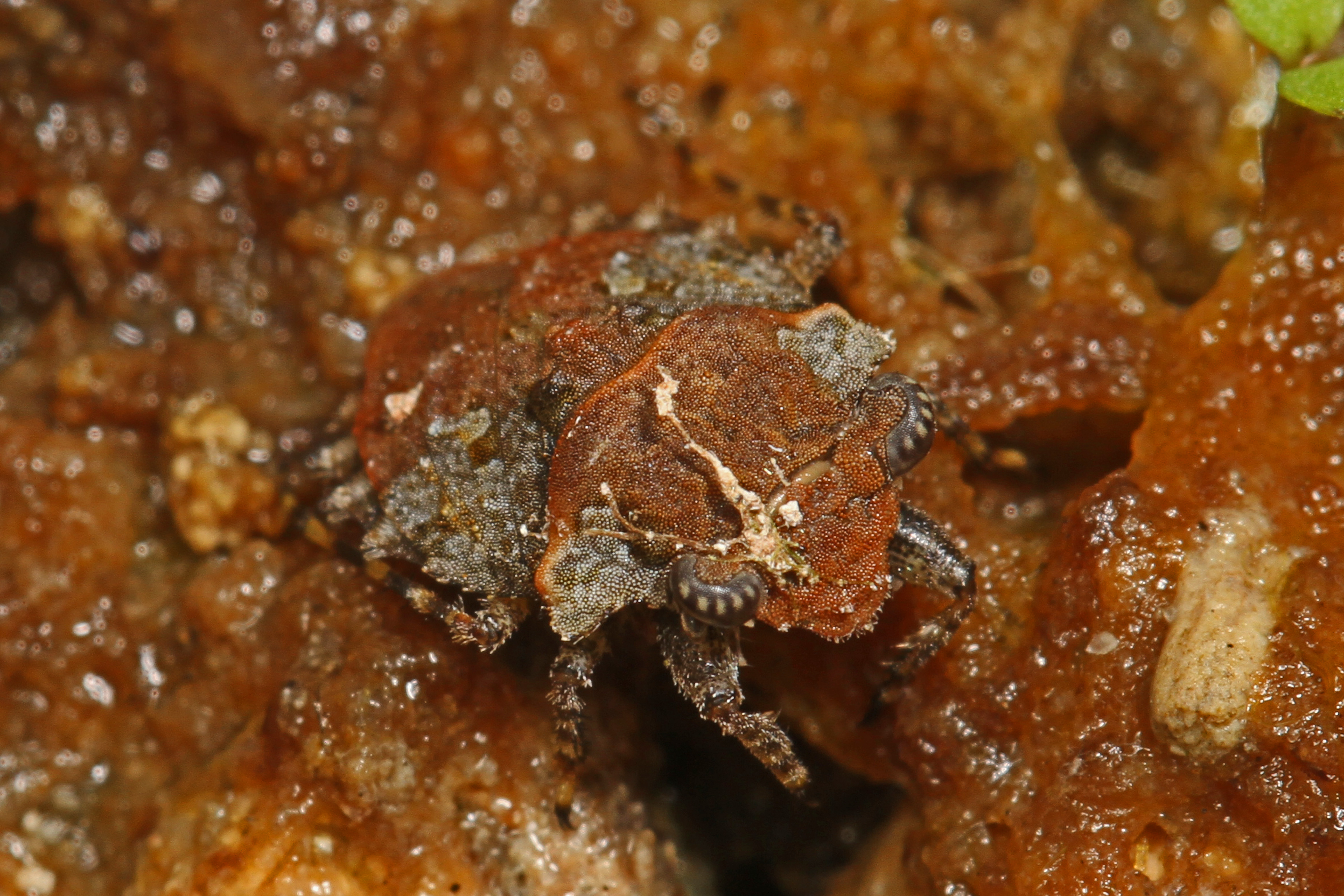 Big-eyed Toad Bug - Gelastocoris oculatus, Okaloacoochee Slough State Forest, Felda, Florida. This is another species that blends in so well with its surrounding that I would not have seen it except that it moved.